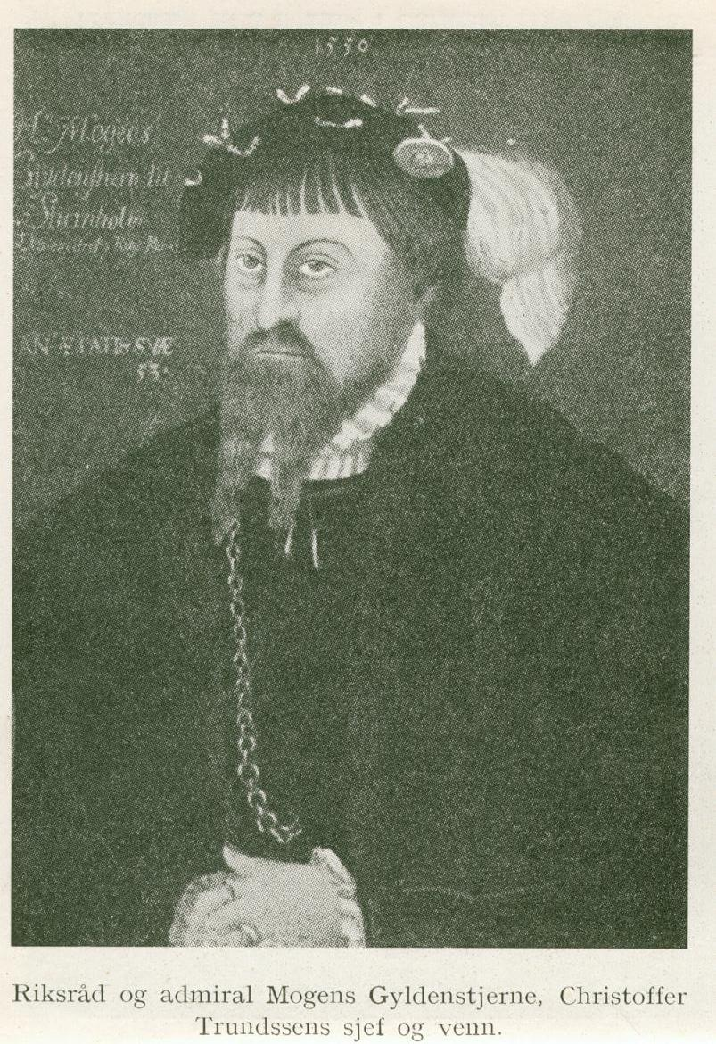 Painting of Mogens Guildernstern (yes "that" Guildernstern a la "Rosenkrantz and ....") - Danish Admiral and Royal Advisor to the King. Kristoffer Throndssen worked under his after joining the Danish Government, in 1559.